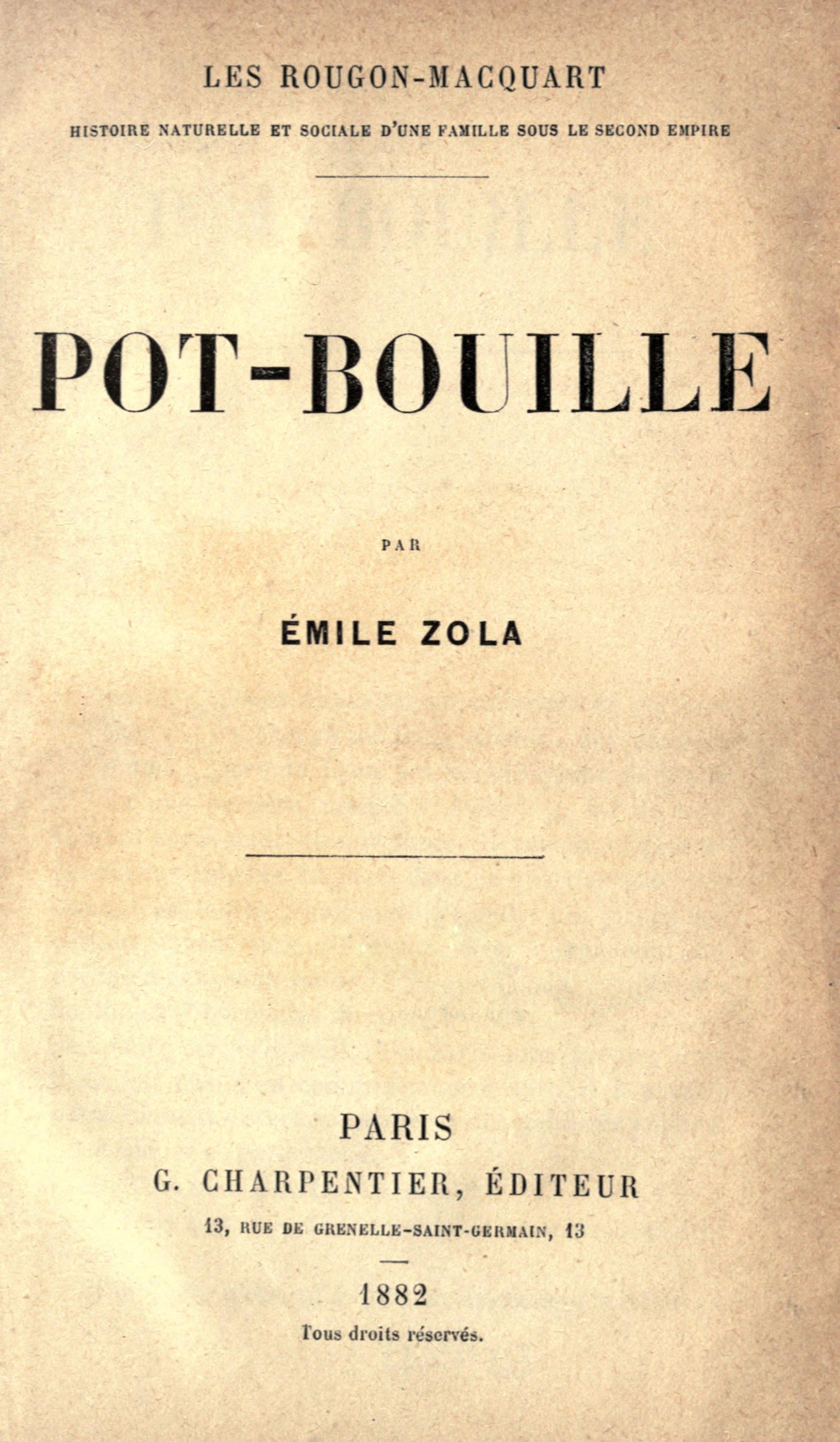 1st ed title pg